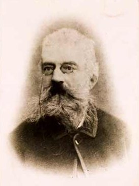 Portrait of Carlo Rognoni (1829-1904) that was an Italian agronomist